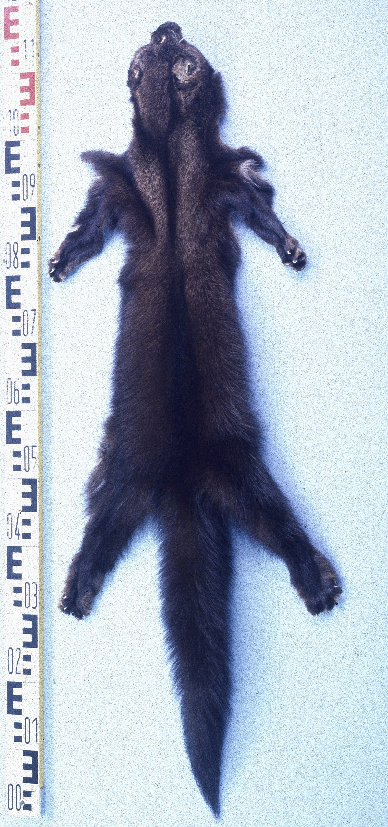 Fisher Fur skin (Martes pennanti). Fur skin collection, Bundes-Pelzfachschule, Frankfurt/Main, Germany